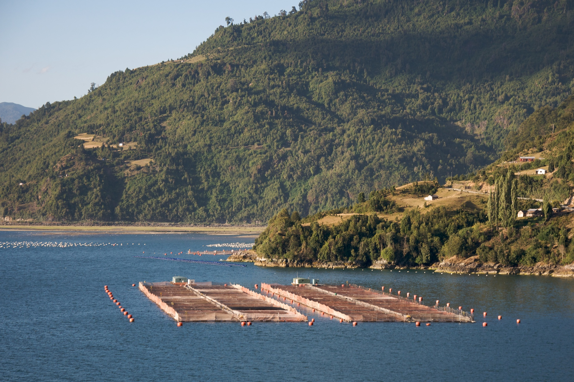 Chilean farmed salmon farms